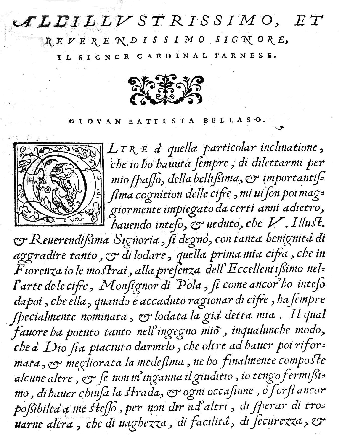 Foreword of a book published in 1564 by Giovan Battista Bellaso